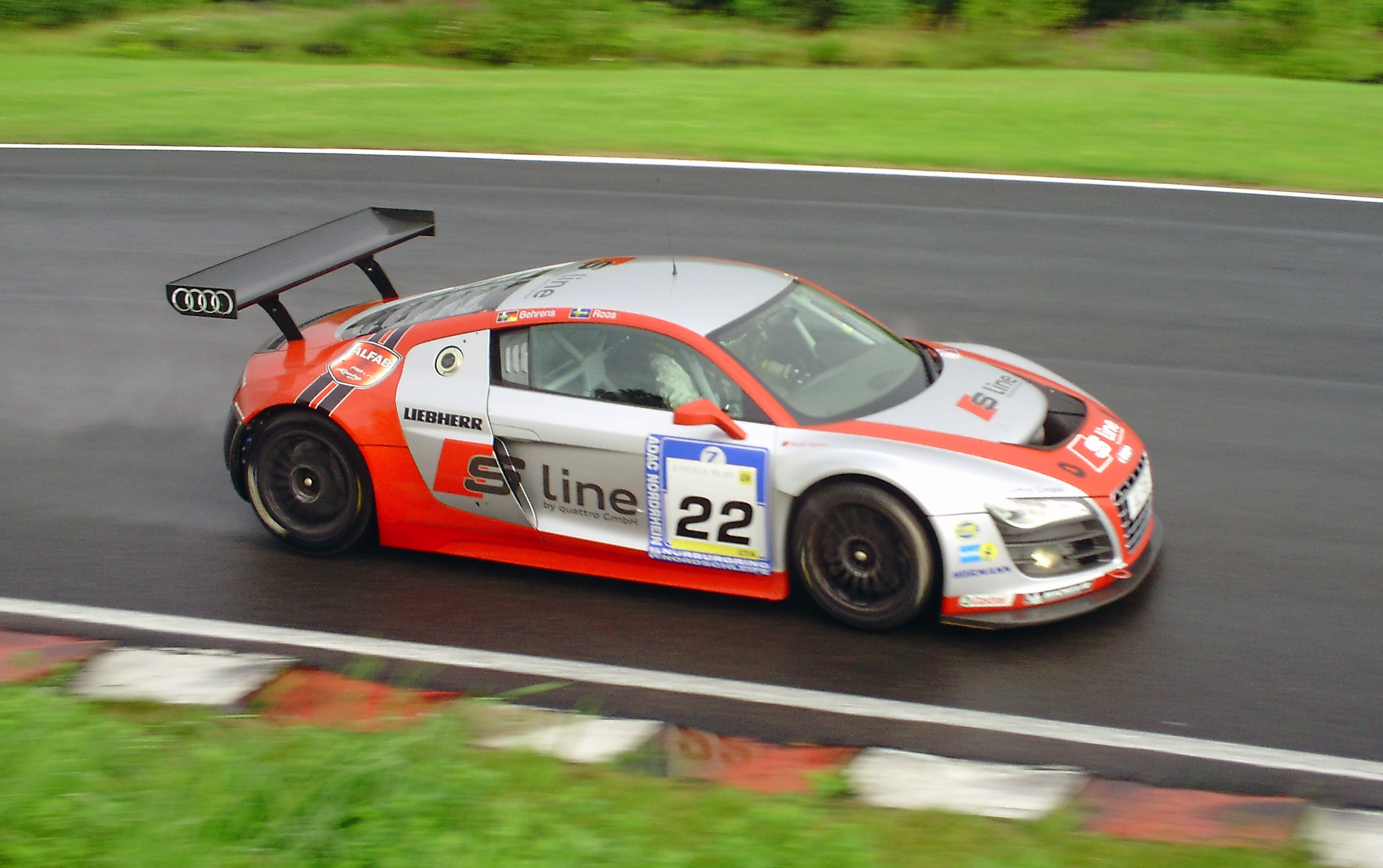 An Audi R8 Le Mans GT3 driven by Daniel Roos and Erik Behrens for ALFAB Racing in Swedish GT Series at Falkenbergs Motorbana, 2011